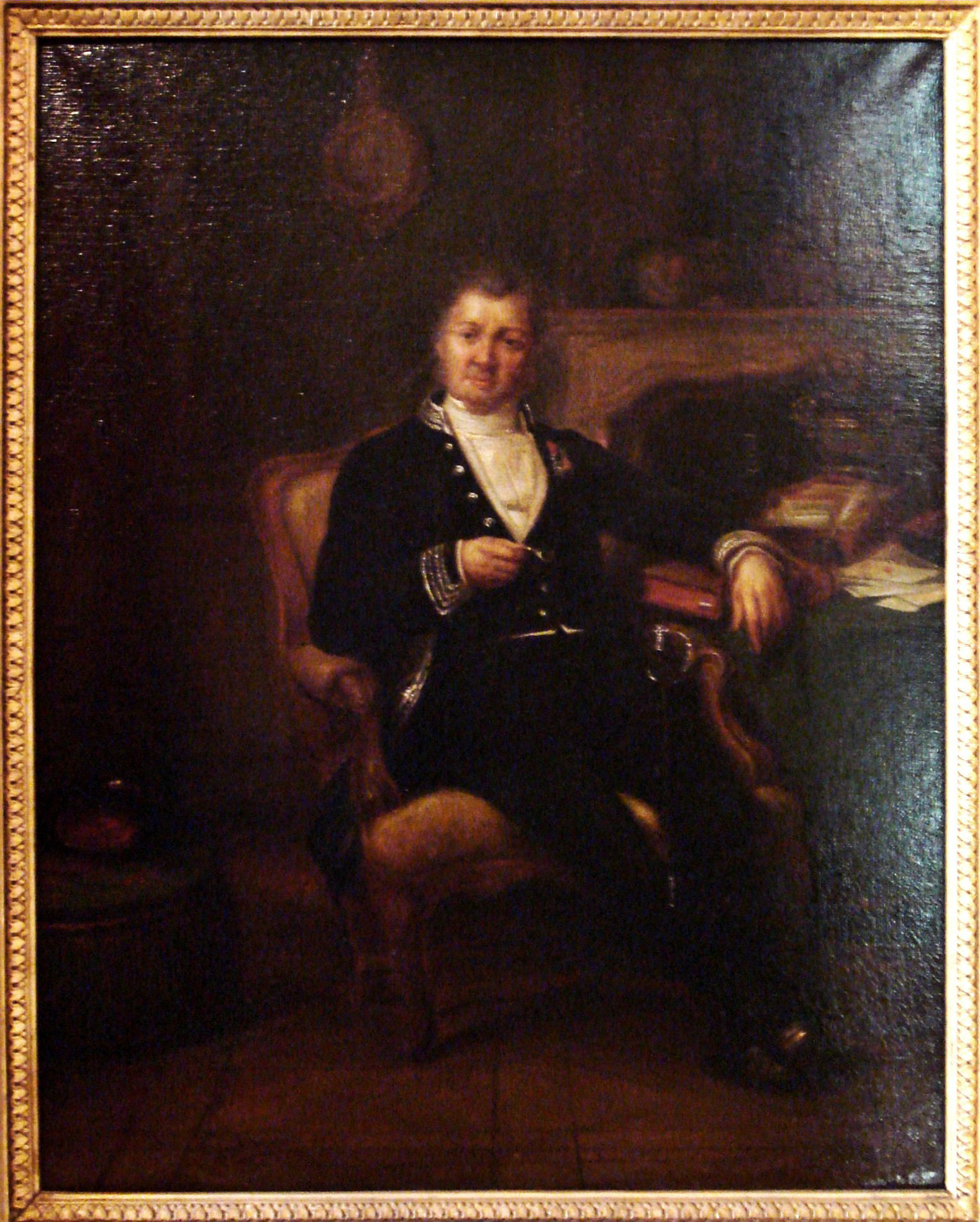 Portrait_de_l_Amiral_Duperre_in_1855_par_Claude_Jacquand_1804_1878